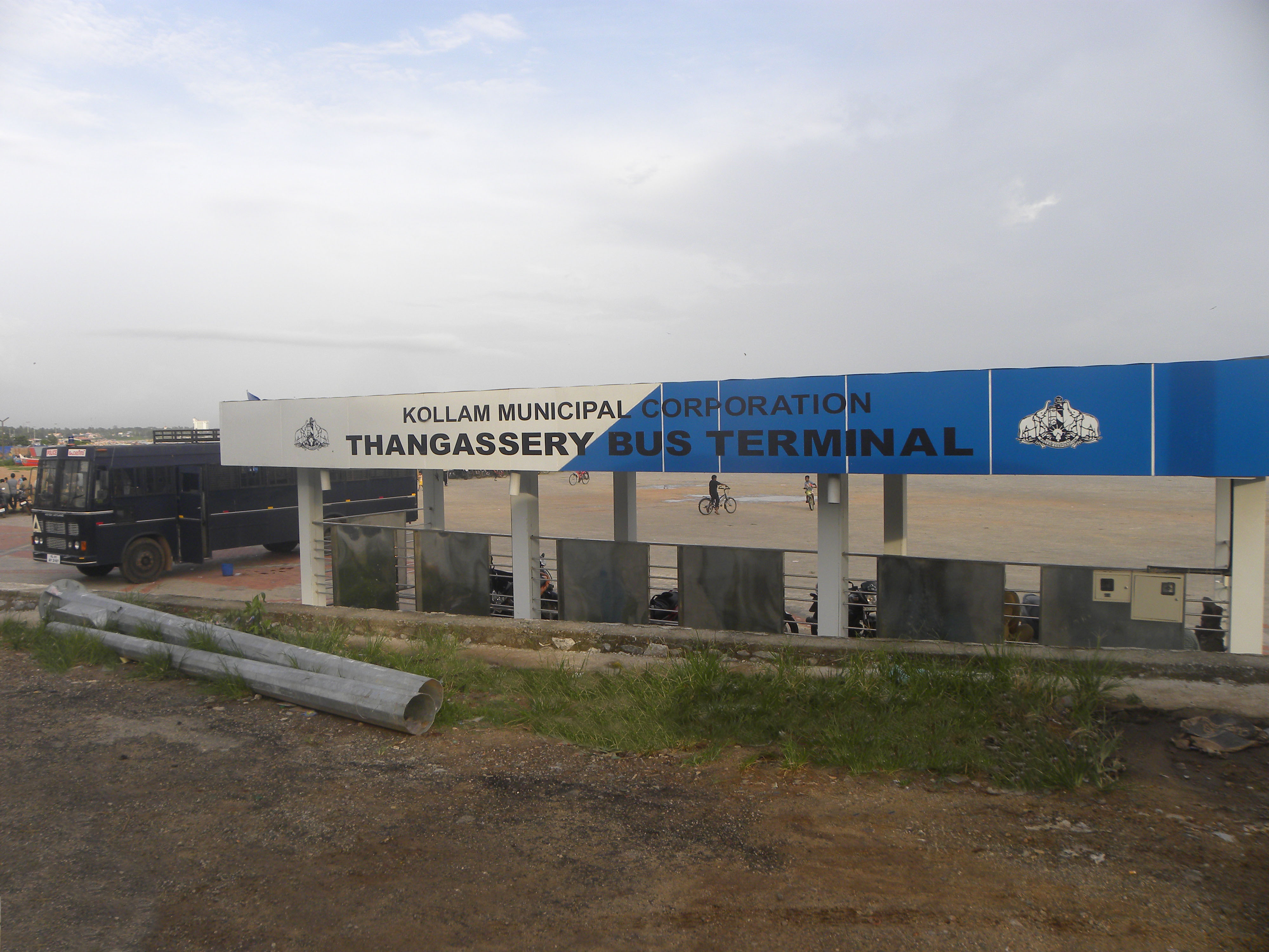 Thangassery or Tangasseri in Kollam city is the only place in India that maintain the Anglo-Indian culture nowadays. Thangassery Bus Terminal is the 3rd Bus Station/Terminal in Kollam city